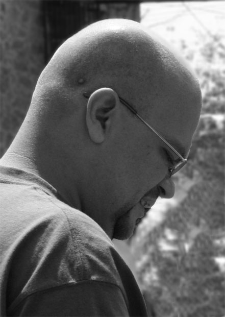 Jorge Galvan in 2007, winner of the UNAM-Alfaguara price in 2006 Depicted person: Jorge Galvan – Mexican writer and engineer